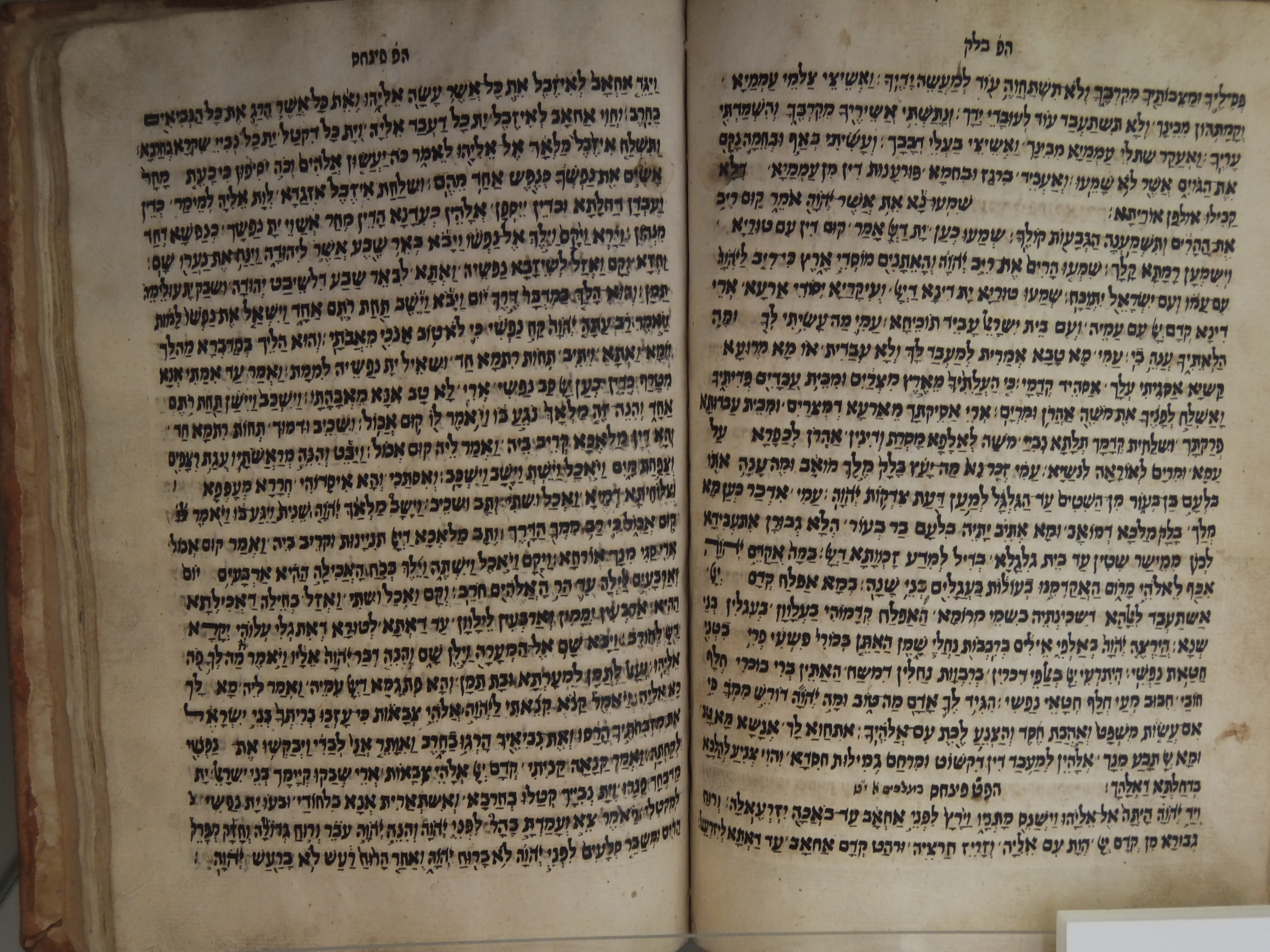 Sefer Haftarah written in Yemen (ca. 19th century)